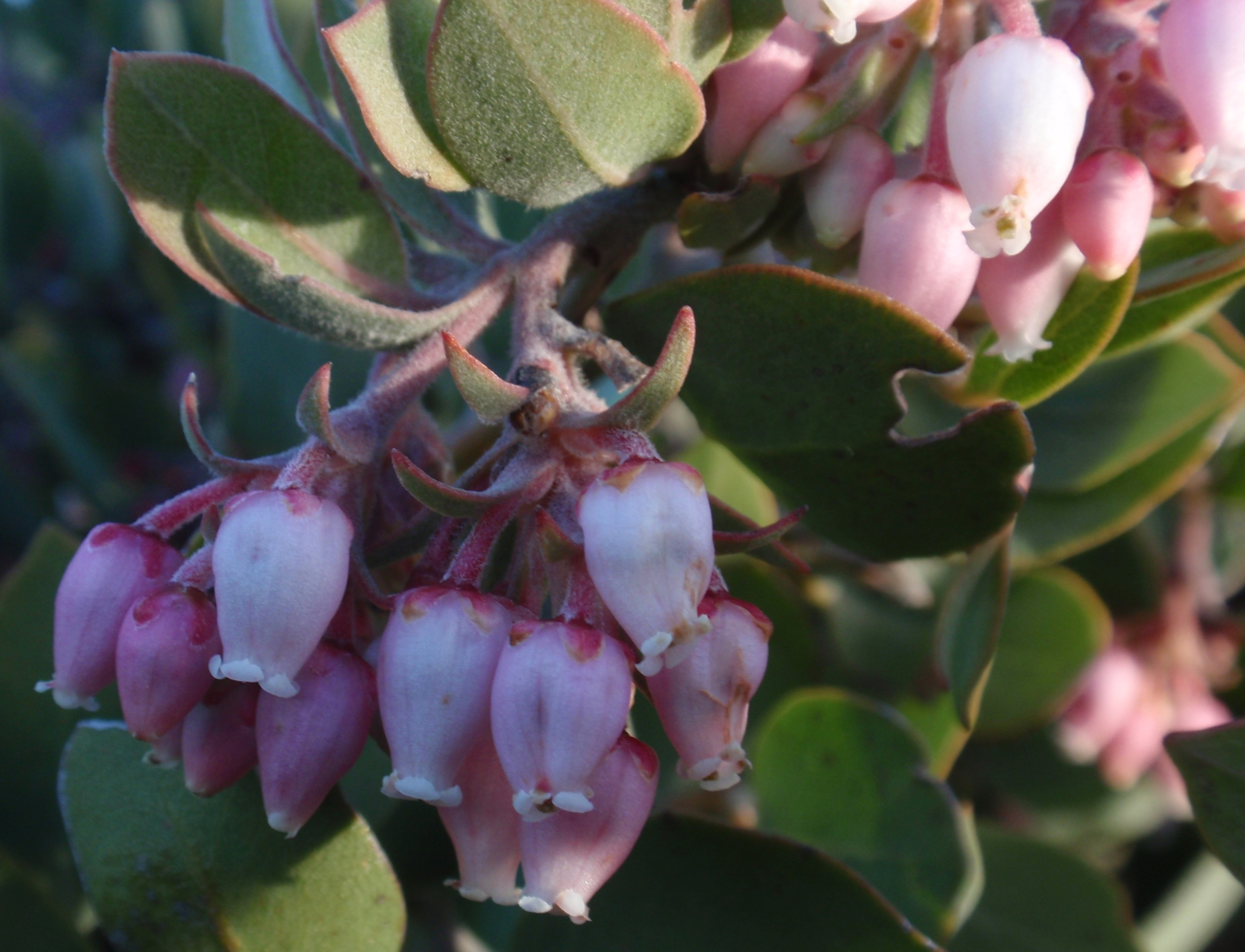 Hoary Manzanita Arctostaphylos canescens) at East Peak on Mt. Tamalpais.